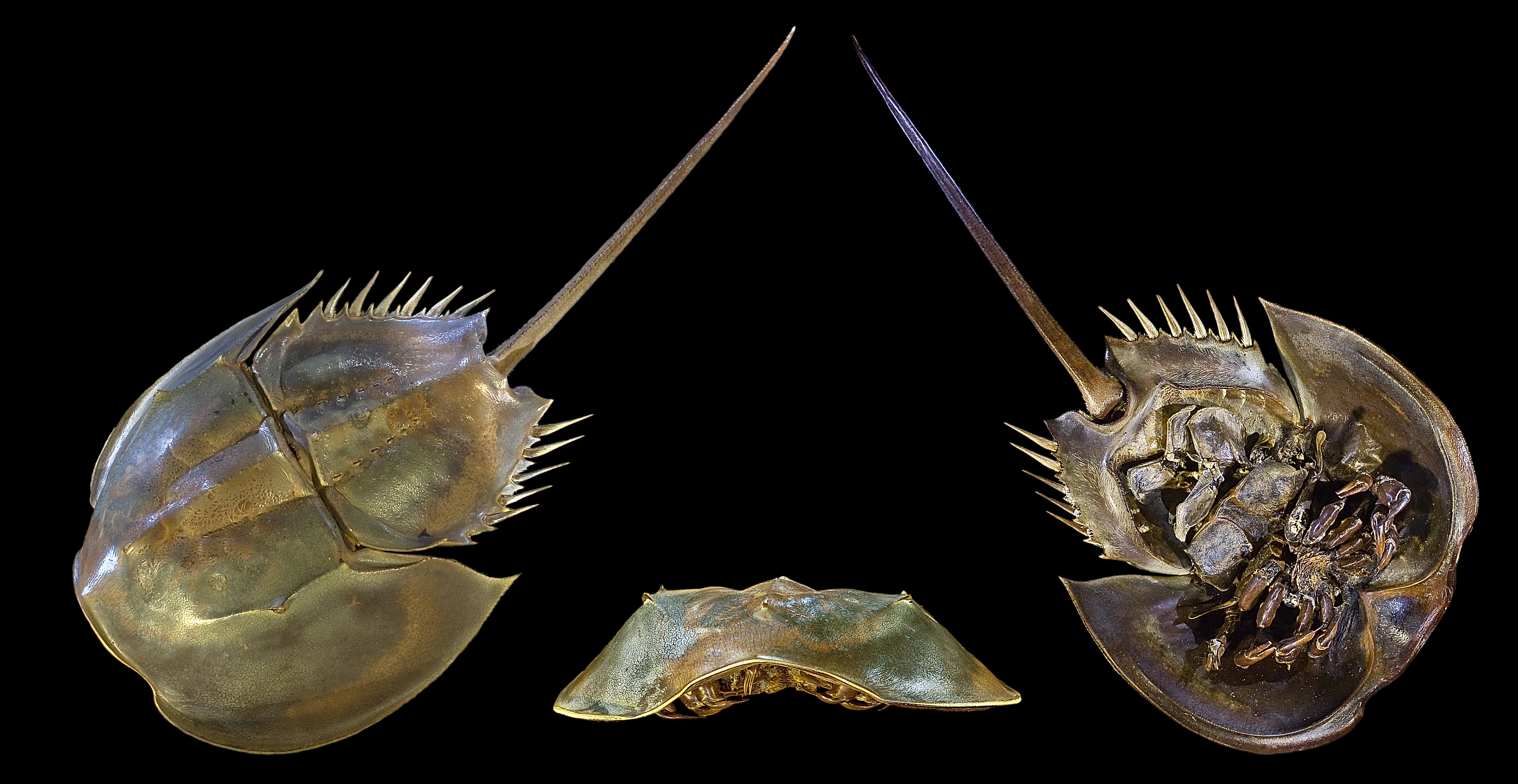 Horseshoe crab - 55 cm (Same specimen) - East Coast of the United States - A studio shot